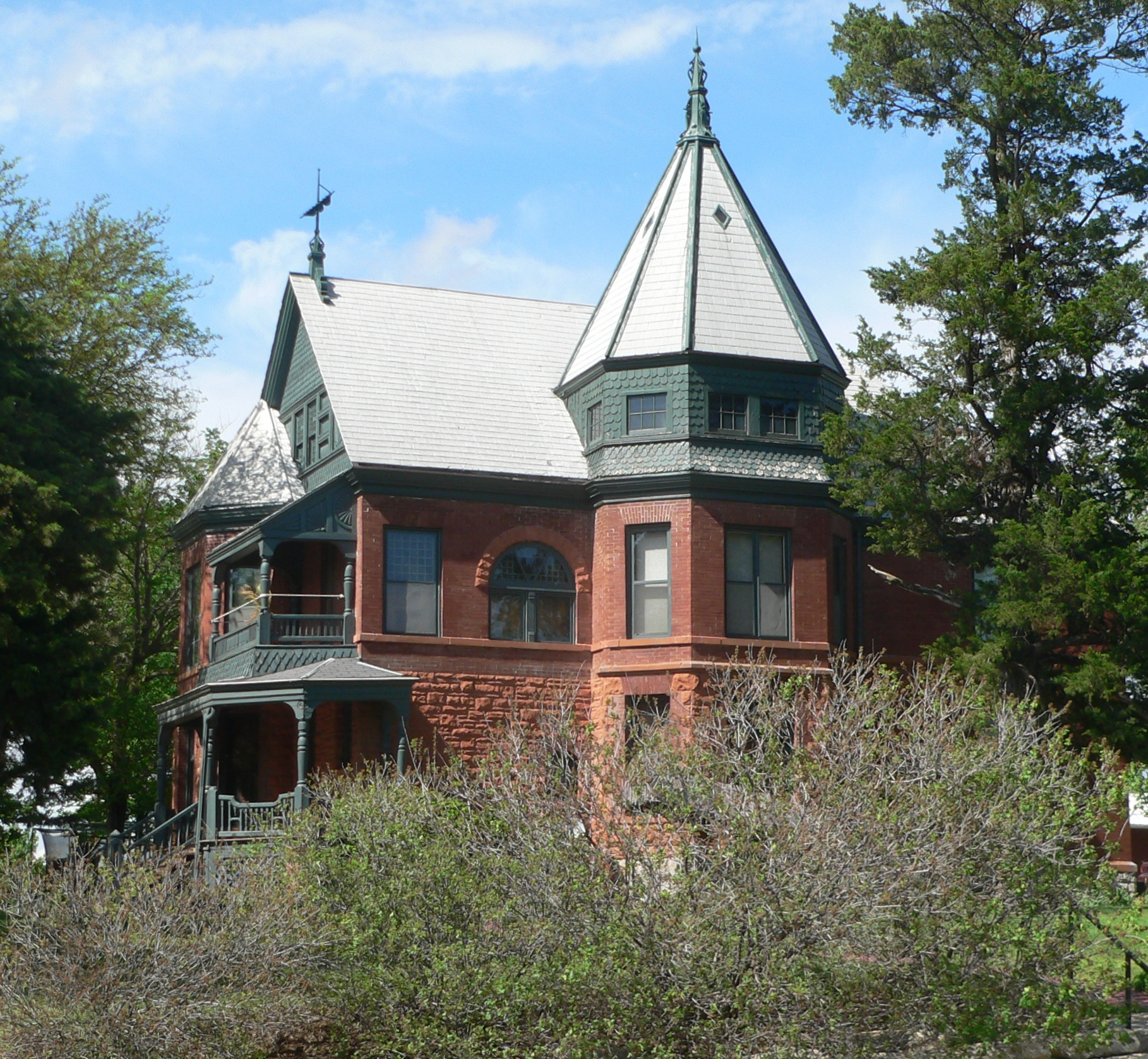 Johnston-Muff house, located at 1422 Boswell Ave. (northeast corner of 14th and Boswell) in Crete, Nebraska; seen from the southwest, across 14th.